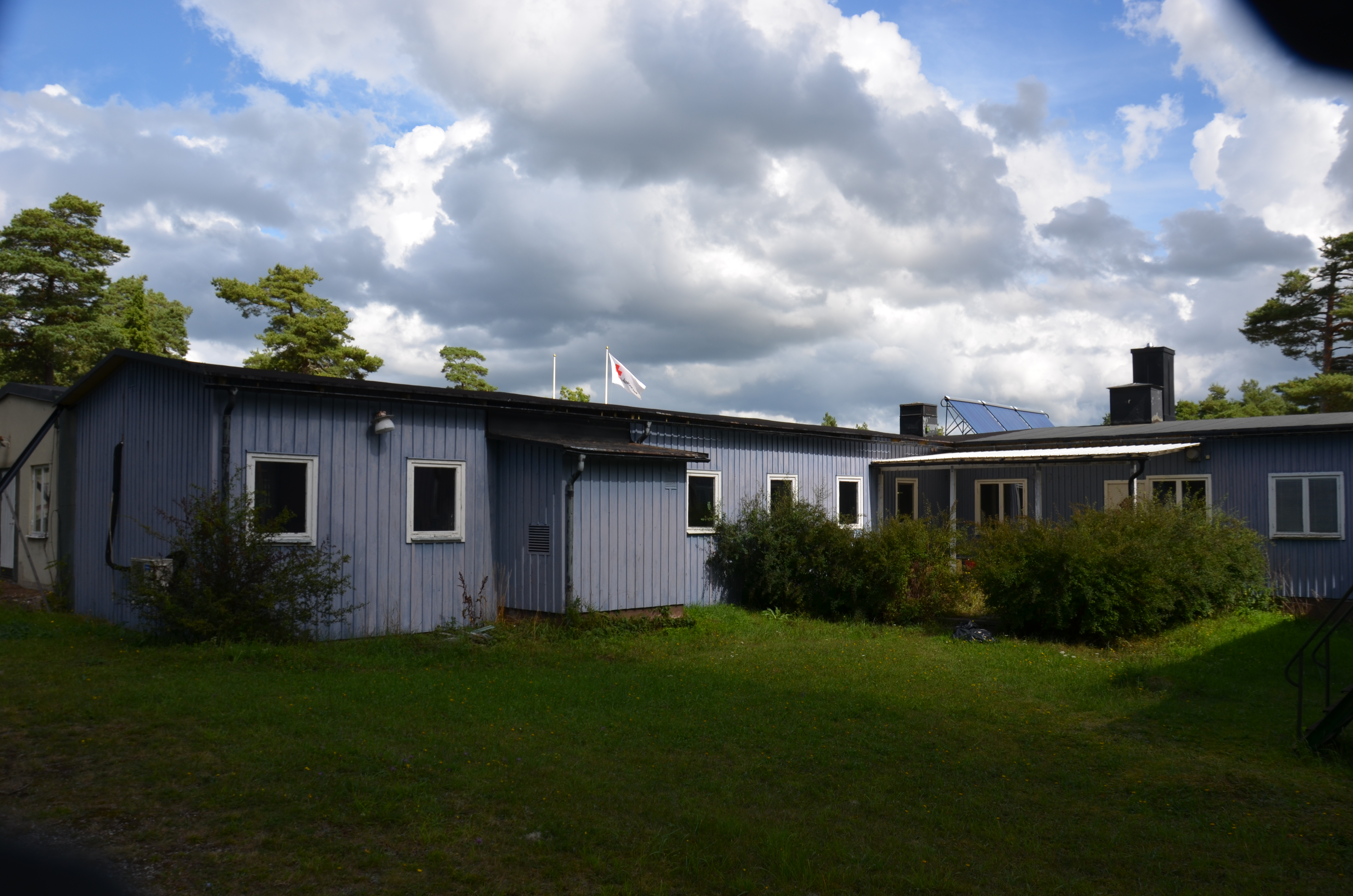 Lärbro krigssjukhus, Lärbro, Gotland